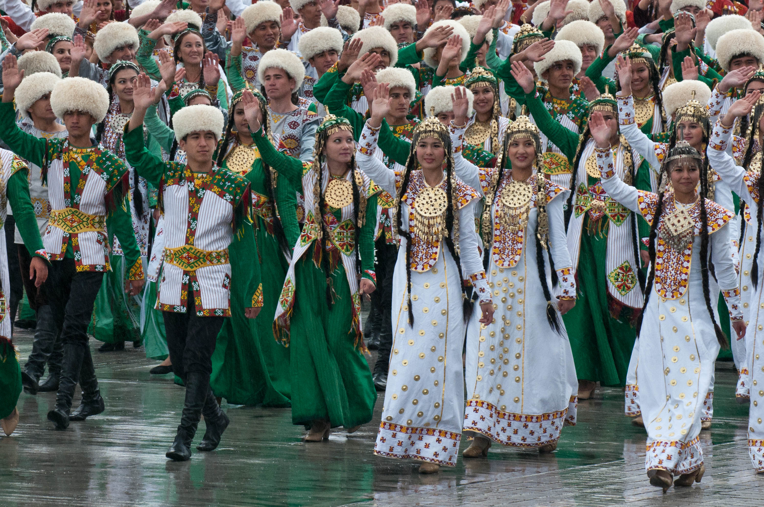 Celebrating the 20th year of independence in Turkmenistan